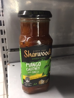 Green mango chutney with chilli.